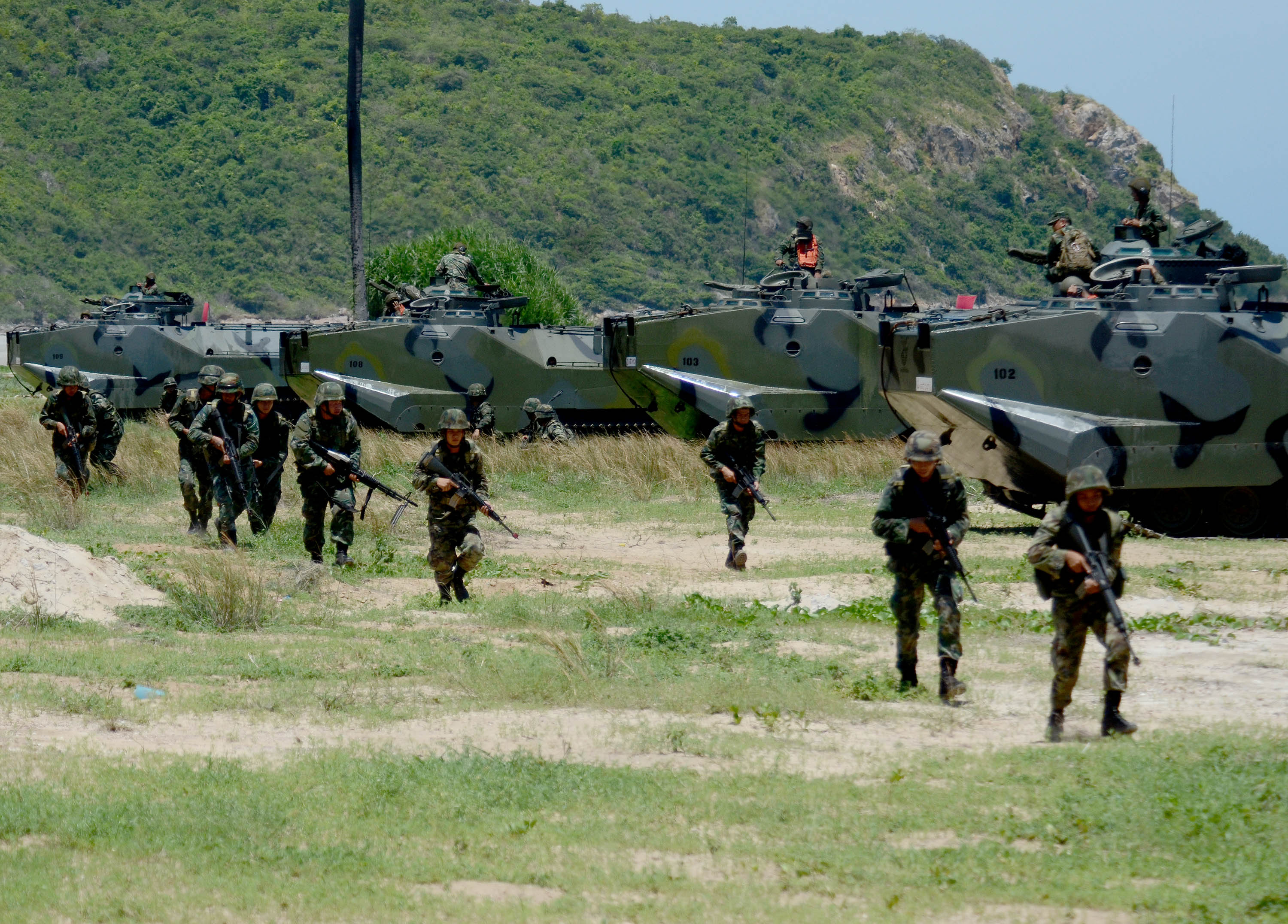 Royal Thai marines conduct amphibious assault training with U.S. Marines assigned to the 2nd Assault Amphibian Battalion, 2nd Marine Division at Hat Yao Beach in Thailand during exercise Cooperation Afloat Readiness and Training (CARAT) Thailand 2013. CARAT is a series of bilateral exercises held annually in Southeast Asia to strengthen relationships and enhance force readiness.